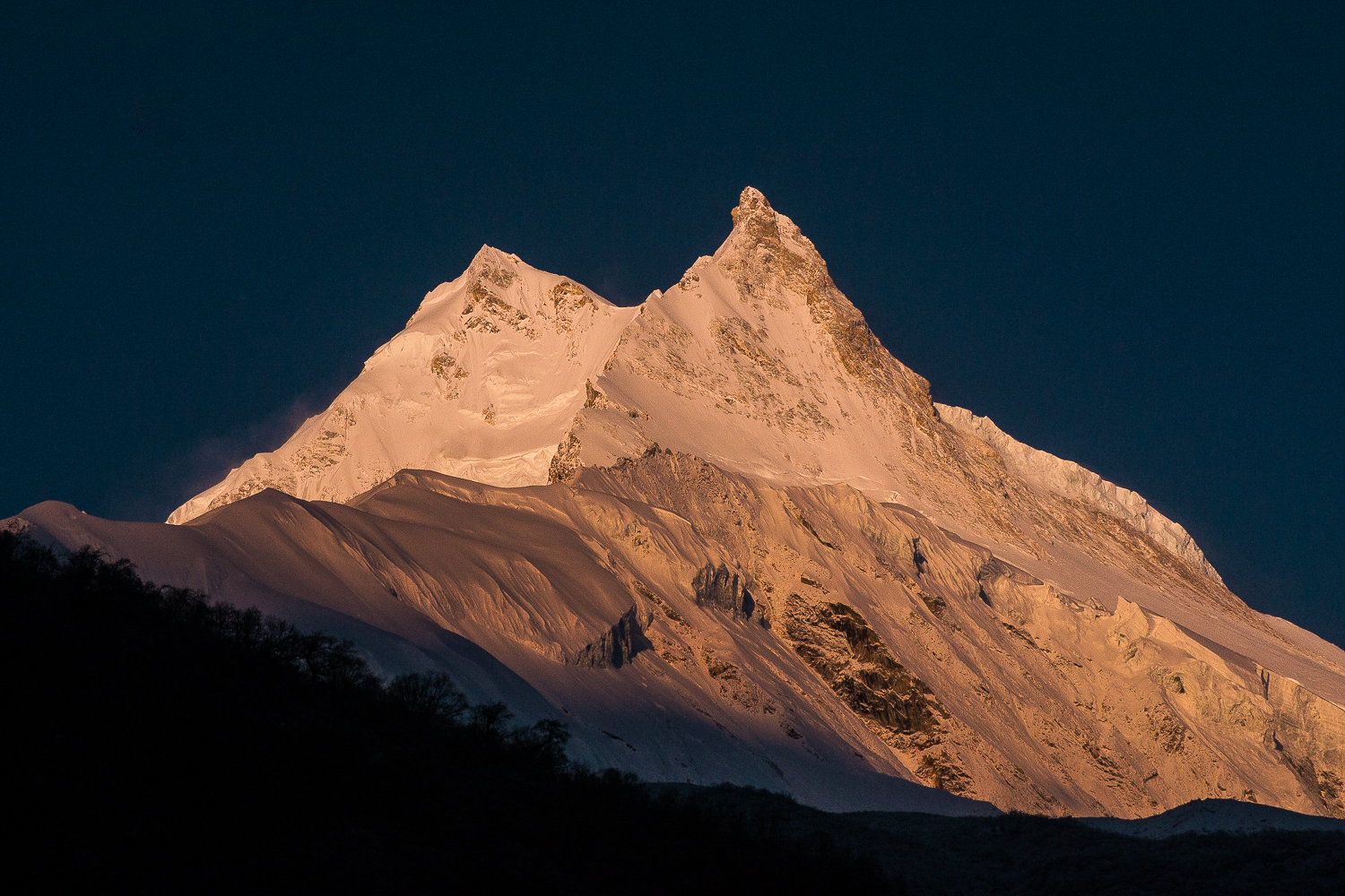 The morning view of Manaslu 8th highest peak in the world from Samagaon Village.